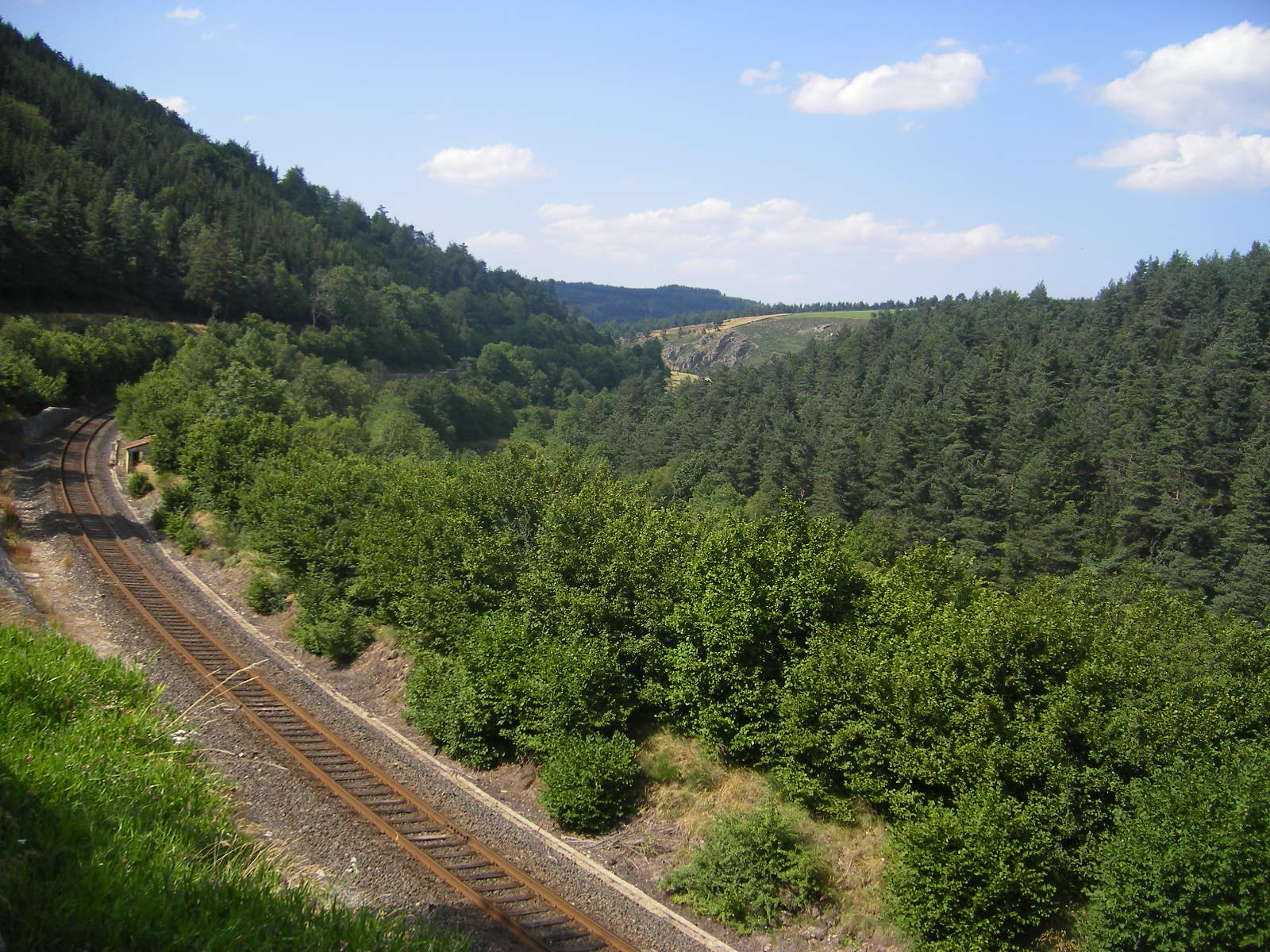 The valley of Allier at Luc